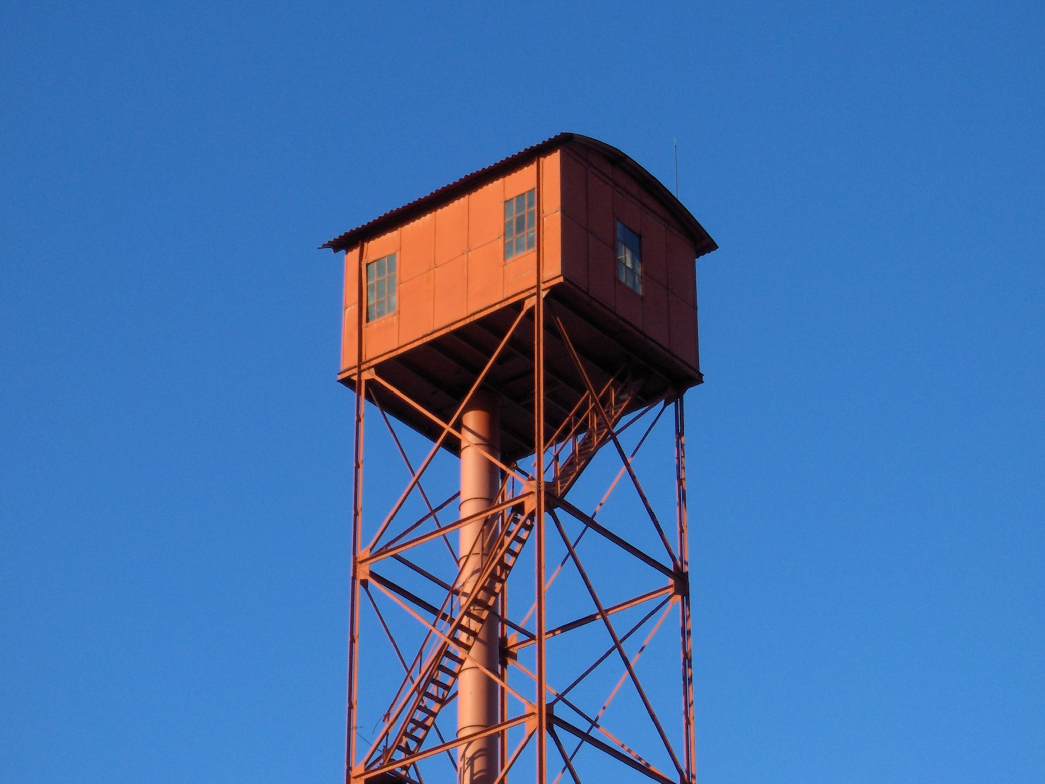 Haulitorni, old pellet factory in Tampere